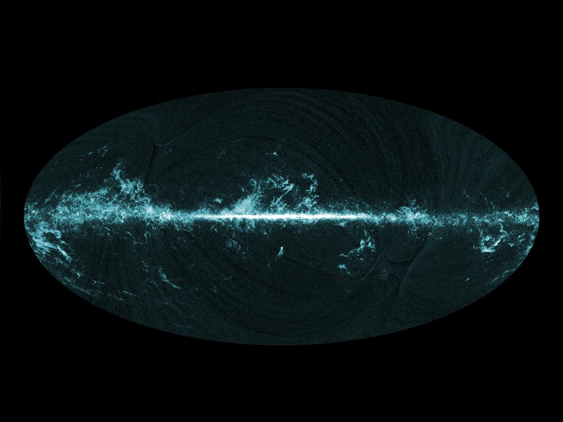 This all-sky image shows the distribution of carbon monoxide (CO), a molecule used by astronomers to trace molecular clouds across the sky, as seen by Planck. Molecular clouds, the dense and compact regions throughout the Milky Way where gas and dust clump together, represent one of the sources of foreground emission seen by Planck. The vast majority of gas in these clouds consists of molecular hydrogen, and it is in these cold regions that stars are born. Since cold molecular hydrogen does not easily radiate, astronomers trace these cosmic cribs across the sky by targeting other molecules, which are present there in very low abundance but radiate quite efficiently. The most important of these tracers is CO, which emits a number of rotational emission lines in the frequency range probed by Planck's High Frequency Instrument. Emission lines affect a very limited range of frequencies compared to the broad range to which each of Planck's detectors is sensitive, and are usually observed using spectrometers. But some CO lines are so bright, they actually dominate the total amount of light collected by certain detectors on Planck when they are pointed towards a molecular cloud. This is the first all-sky map of CO ever compiled. The largest CO surveys thus far have concentrated on mapping the full extent of the Galactic Plane, where most clouds are concentrated, leaving large areas of the sky unobserved. Planck is a European Space Agency mission, with significant participation from NASA. NASA's Planck Project Office is based at JPL. JPL contributed mission-enabling technology for both of Planck's science instruments. European, Canadian and U.S. Planck scientists will work together to analyze the Planck data. More information is online at and